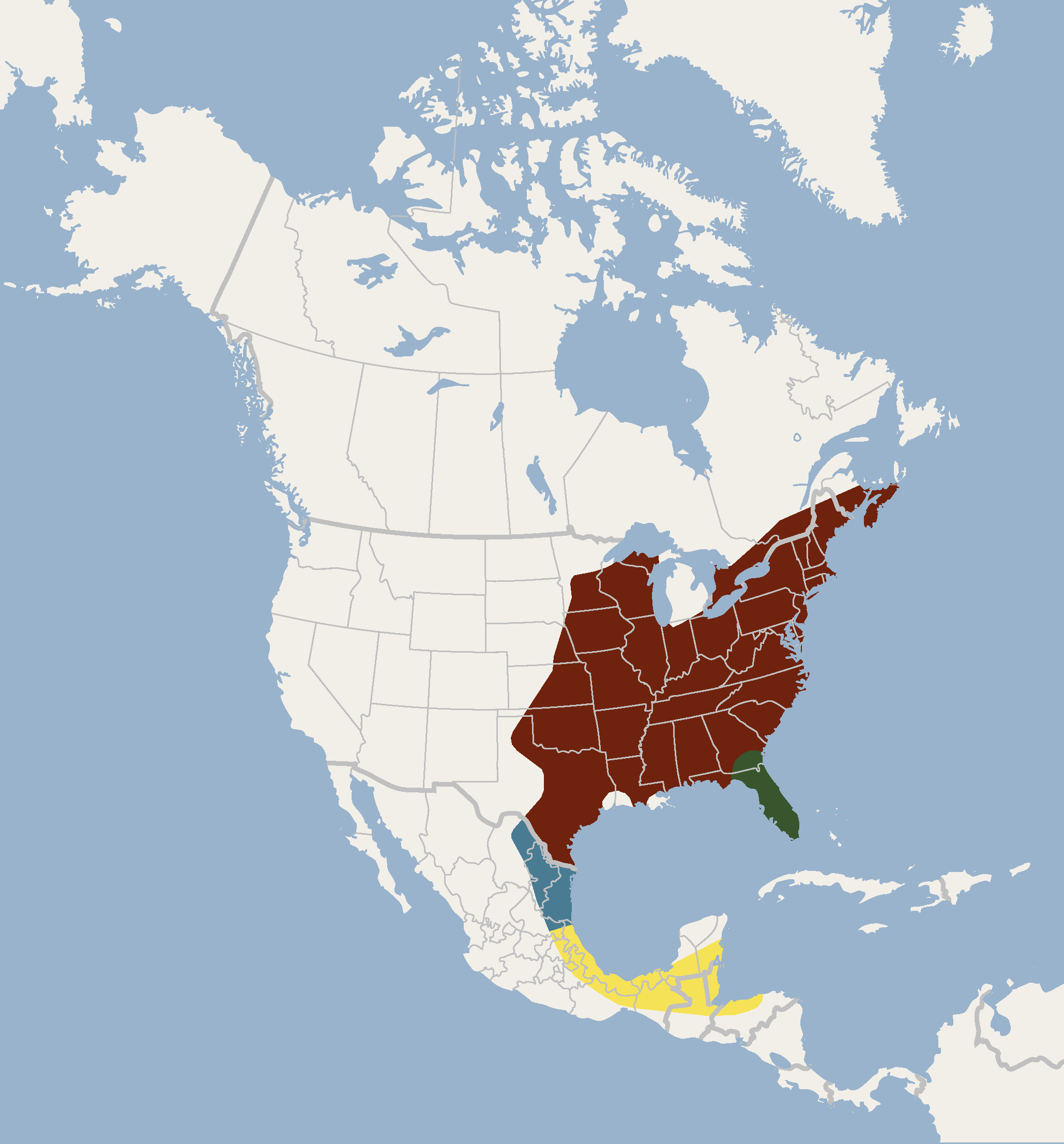 According to Fujita & Kunz, 1984